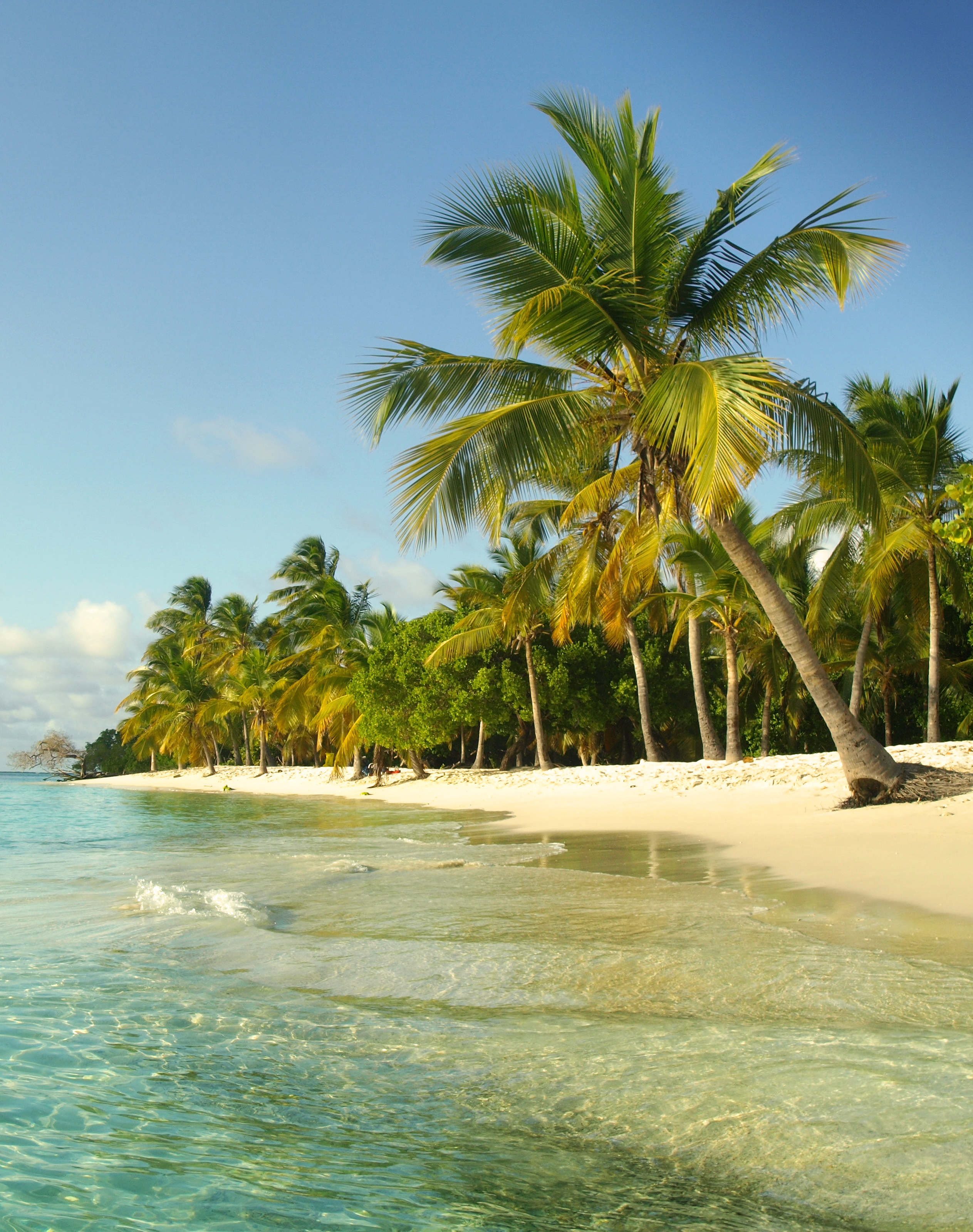 Cristal clear beach at Venezuela's Morrocoy National Park